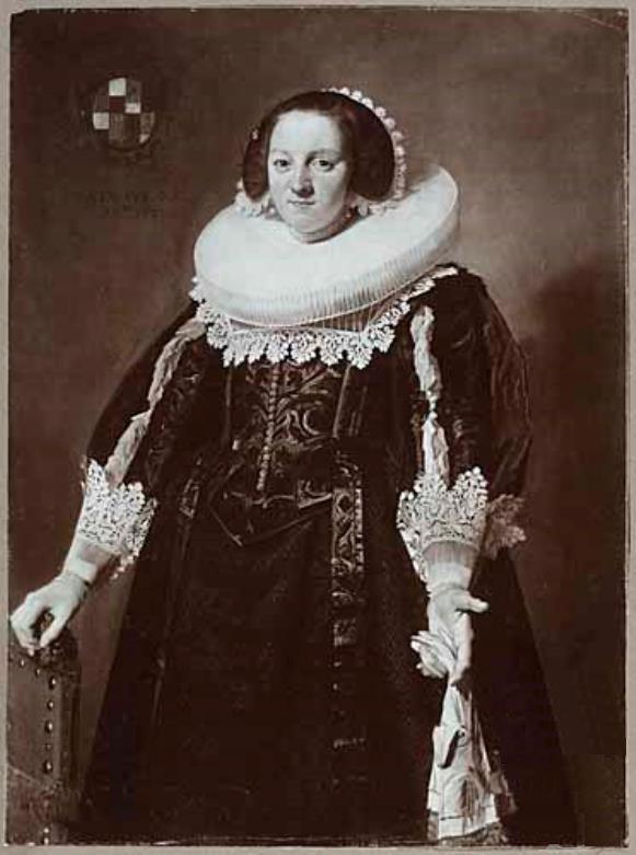 Portrait of Catharina Brugmans, wife of Tieleman Roosterman. Dated AN° 1634, inscribed ÆTa SVÆ 22